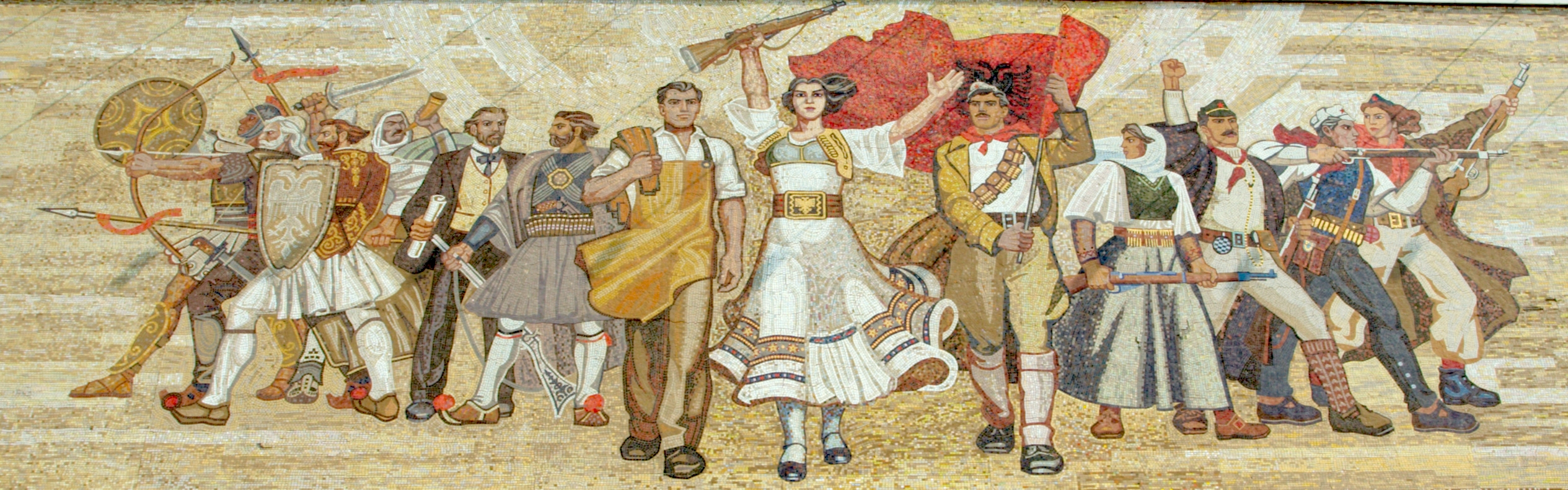 "The Albanians", Mosaic on the front of the National Historic Museum building in Tirana, Albania